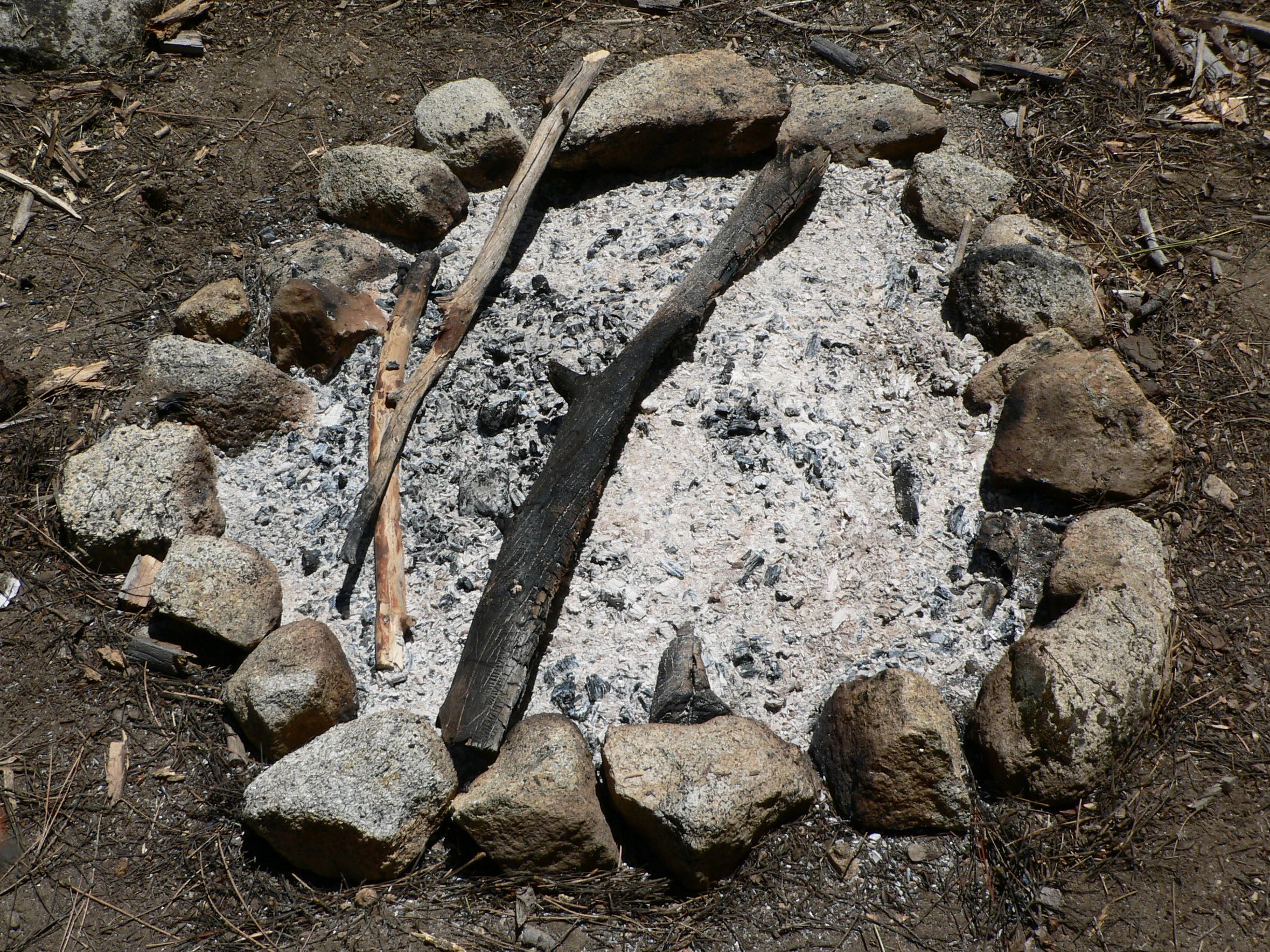 Campfire scar on Abies concolor, Pinus benthamiana, Pinus lambertiana, etc., forest floor. Viewpoint location: Snow Creek Trail, Yosemite National Park Viewpoint elevation: 2100 meter (6880 ft) View direction: N/A Location source: Casio 1675 altimeter watch and Topozone Location Datum: WGS84